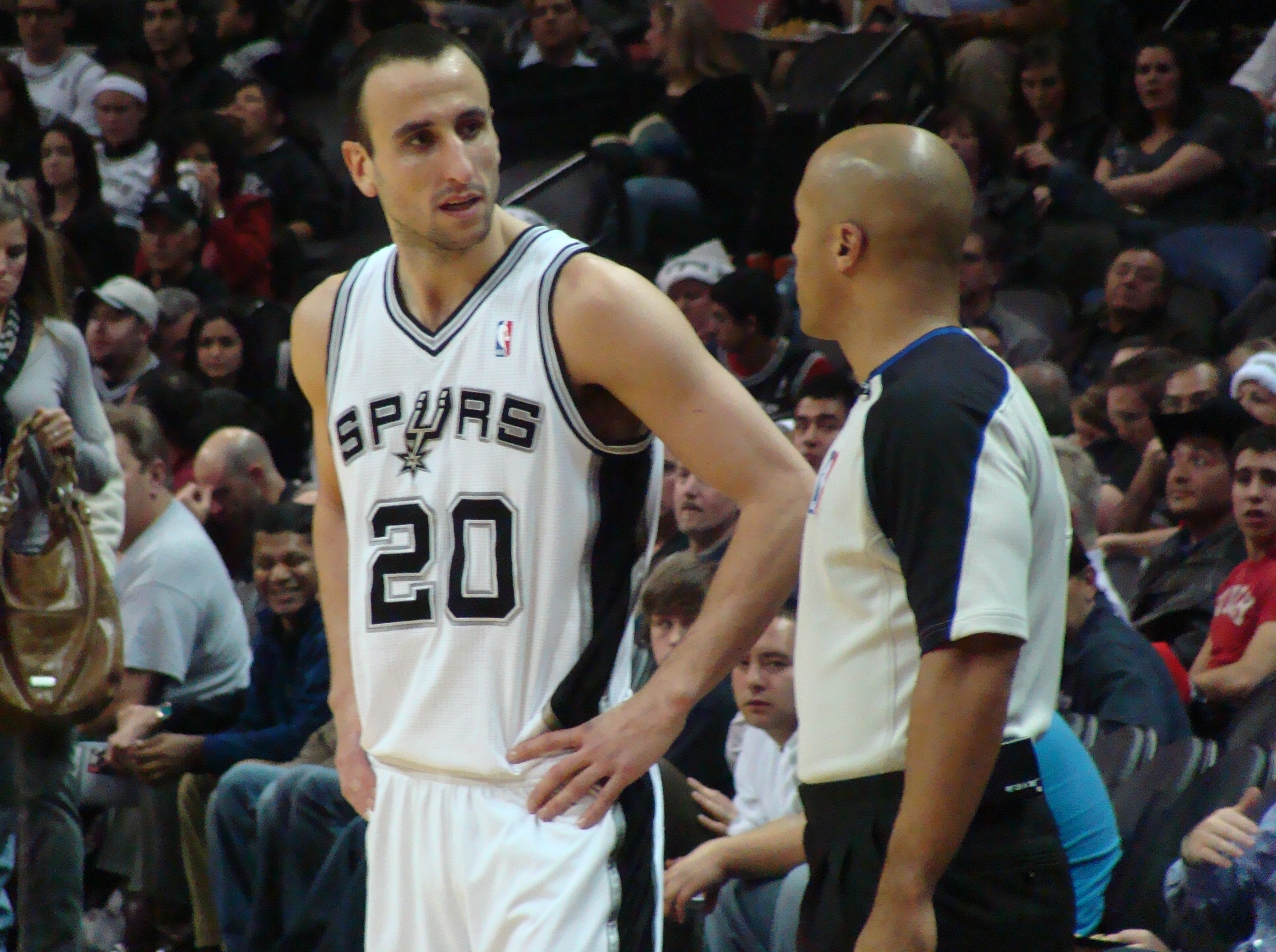 Manu Ginobili of the San Antonio Spurs telling the refereee: "What did you just call my mother?" Photo was taken during the Spurs-Nuggets match on 12-22-2010 in San Antonio, TX.